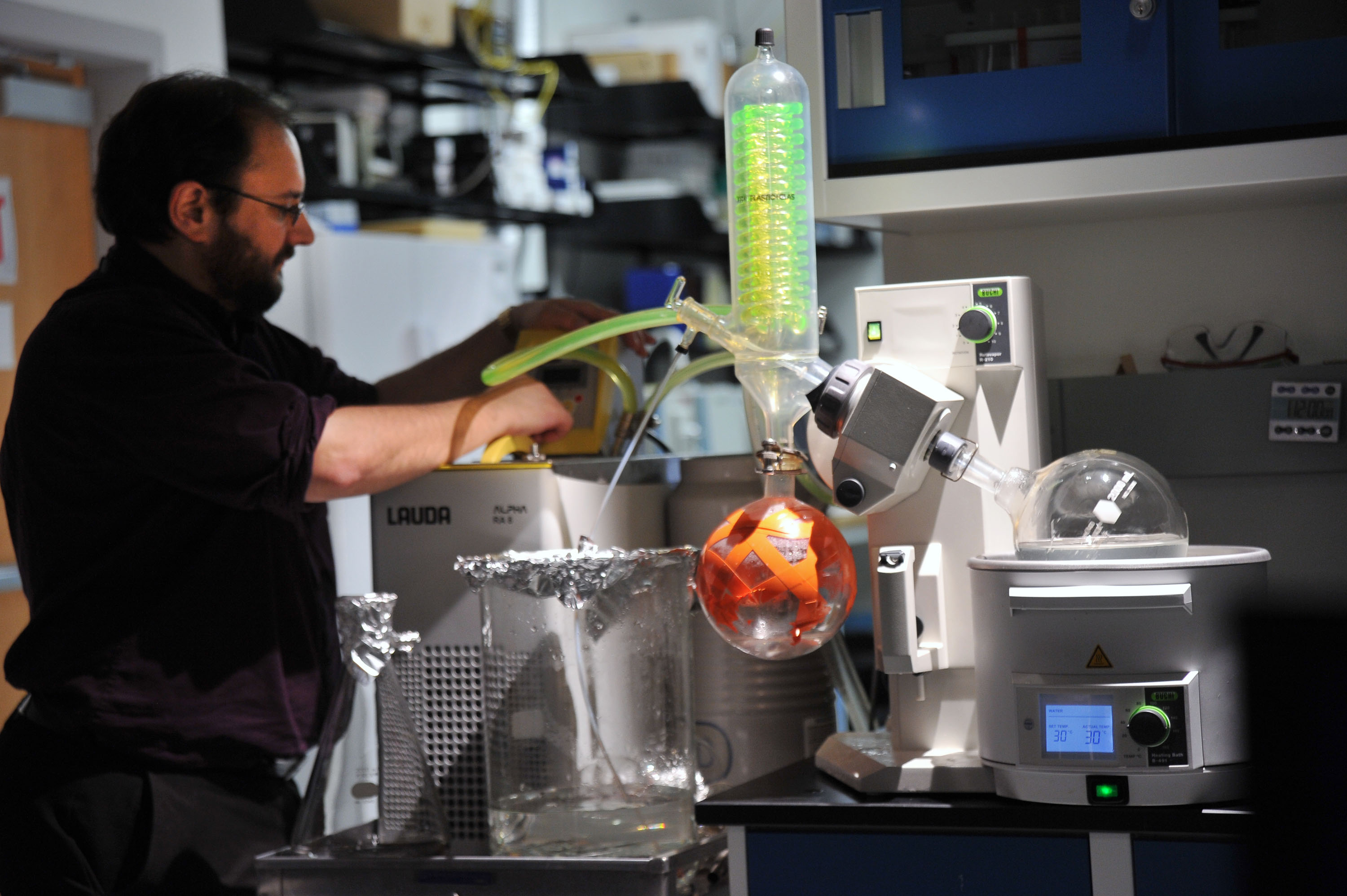 Dr. Jason Dworkin, Chief of the Astrochemistry Laboratory, works with a rotary evaporator inside the Goddard Astrobiology Analytical Laboratory. A rotary evaporator is used to dry down Antarctic ice samples. Credit: NASA/Goddard Space Flight Center/Debbie Mccallum NASA image use policy. NASA Goddard Space Flight Center enables NASA’s mission through four scientific endeavors: Earth Science, Heliophysics, Solar System Exploration, and Astrophysics. Goddard plays a leading role in NASA’s accomplishments by contributing compelling scientific knowledge to advance the Agency’s mission. Follow us on Twitter Like us on Facebook Find us on Instagram